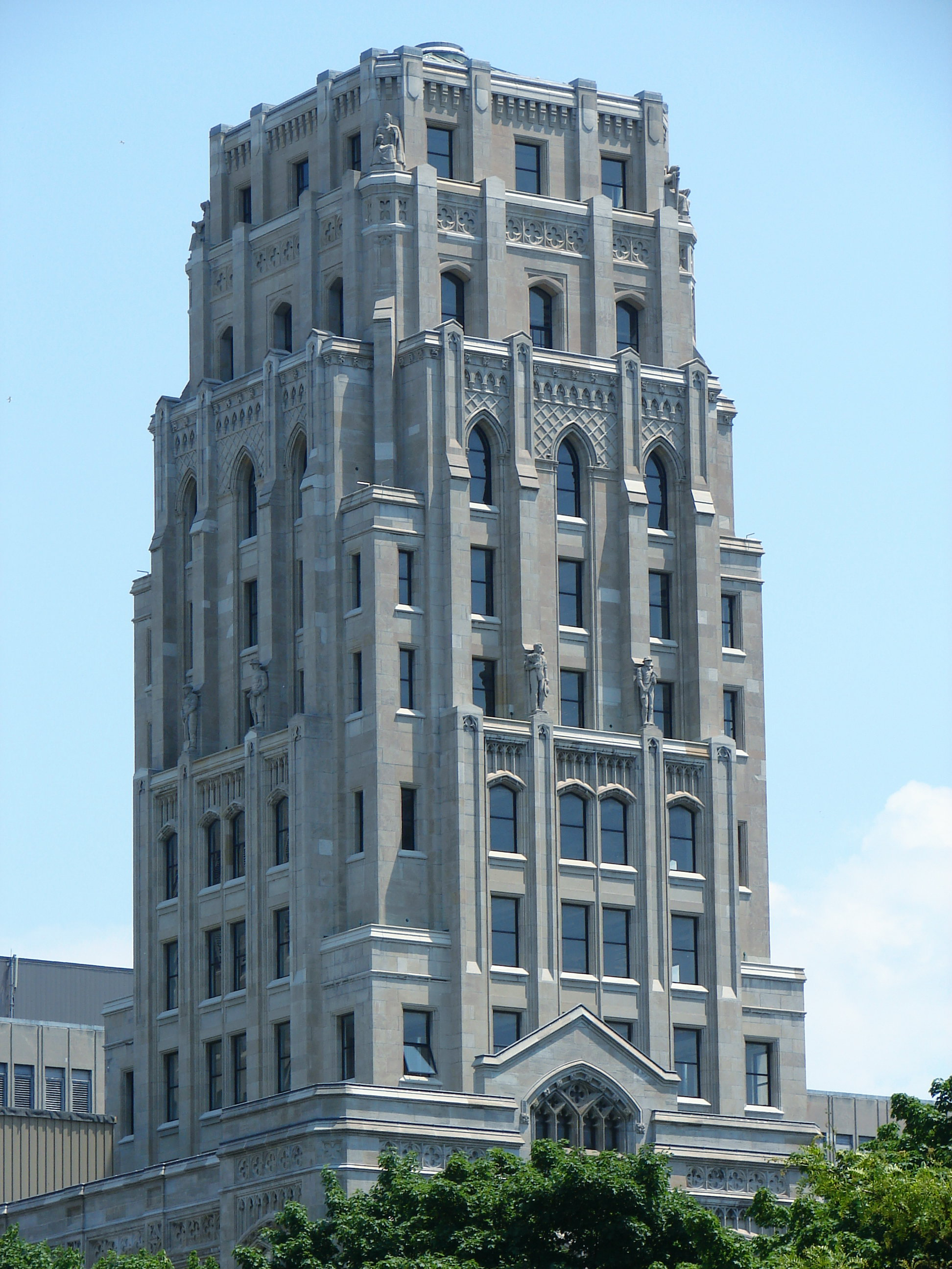 Neo-Gothic skycraper, Toronto